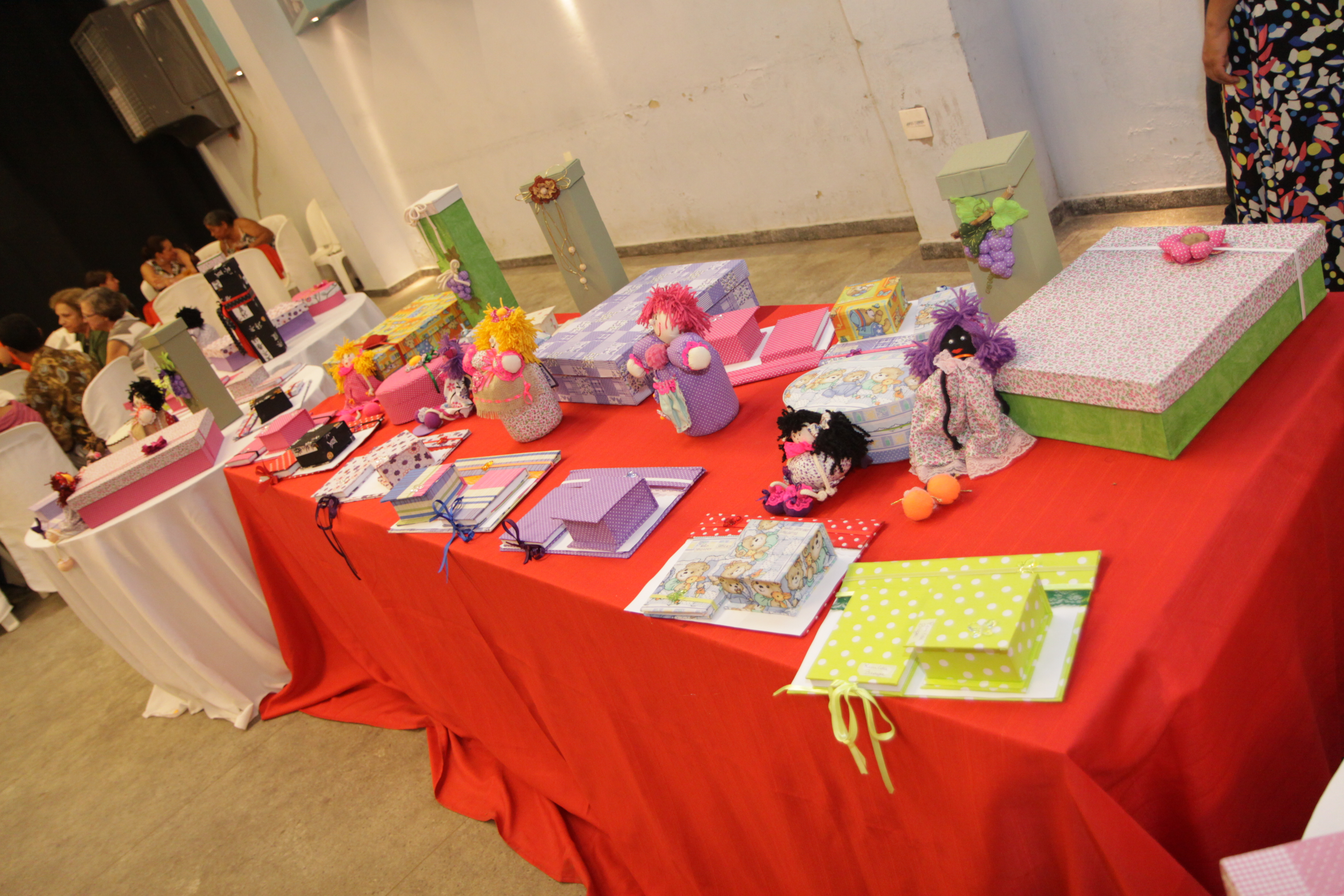 Exhibition of art in João Monlevade, Minas Gerais, Brazil.